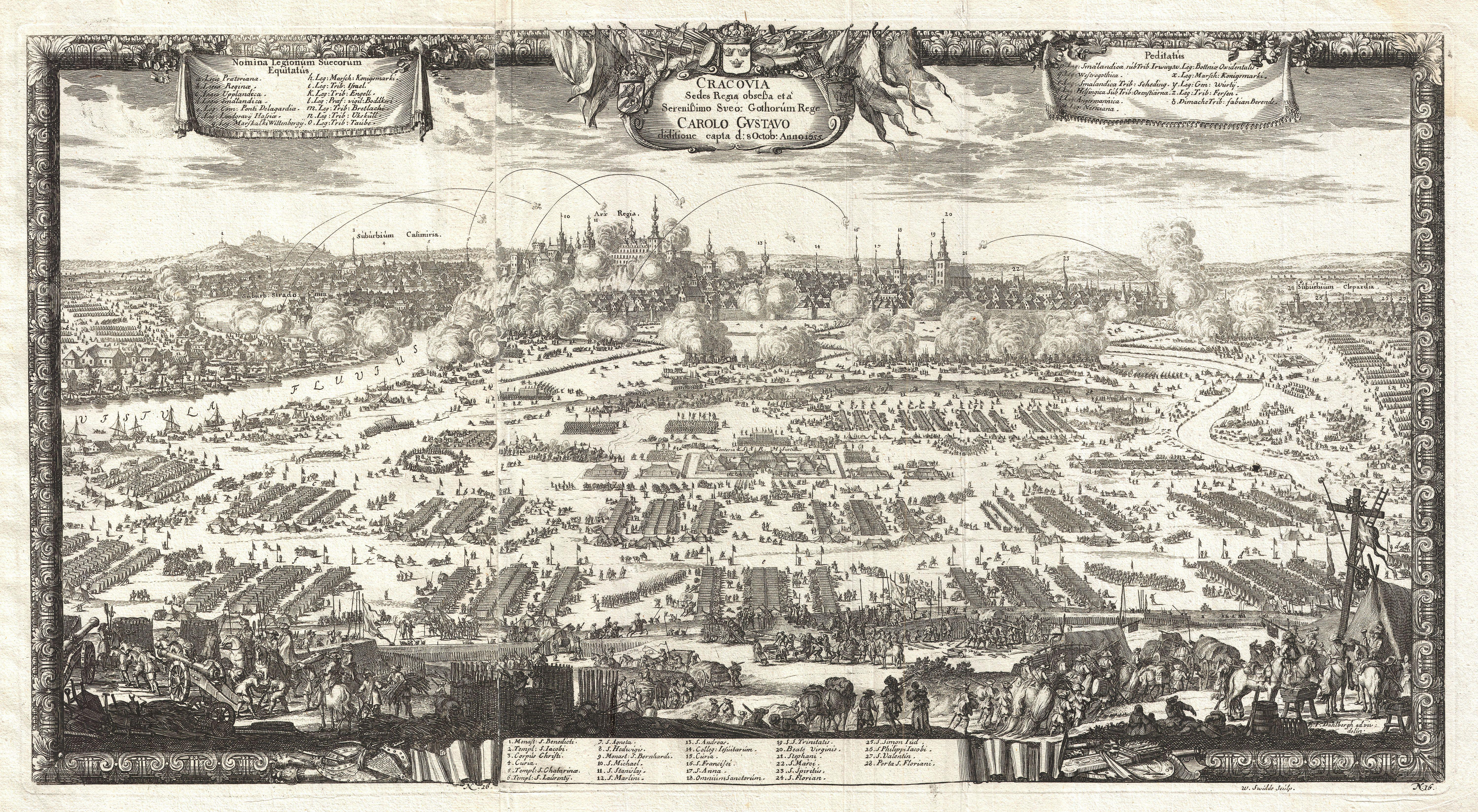 This is a rare 1697 view of Kracow (Cracow), Poland by the German historian Samuel Pufendorf. Depicts the city of Krakow at a pivotal moment in history as it resists the 1655 siege attempts of the Swedish King Carl Gustav X. Krakow appears in the distance surrounded by the encamped Swedish army. Twenty-eight notable buildings, some of which were destroyed in this siege, are identified and referenced in an index at the base of the map. This important siege was part of the Second Northern War, or the Swedish Deluge as it is known in Poland, a military campaign involving Poland, Russia, Germany, Denmark and Transylvania. This war, started by Gustav X of Sweden on the pretext of rebuffing Polish claims to the Swedish crown, was in reality an attempt to assert control of trade in the Baltic. The city of Krakow eventually fell and the Polish King fled only to regain control of his nation a few years later. Eventually Charles Gustav X returned to Sweden, having little to show for his military efforts. Gustav's son, Charles Gustav XI, commissioned the noted German historian S. Pufendorf to create a series of views commemorating the life of his father.